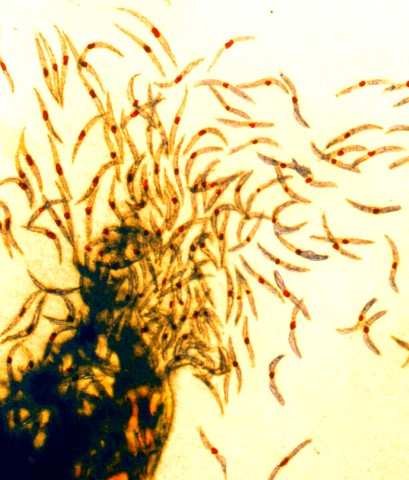 Malaria sporozoites, the infectious form of the malaria parasite that is injected into people by mosquitoes. Credit: NIAID